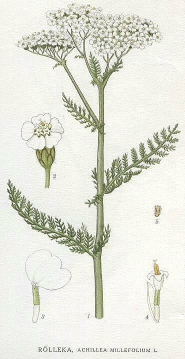 Original Description Rölleka, Achillea millefolium L.